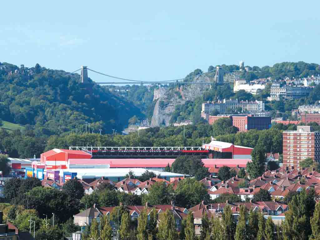 View over Bristol - Ashton Gate Stadium and the Clifton Suspension Bridge.